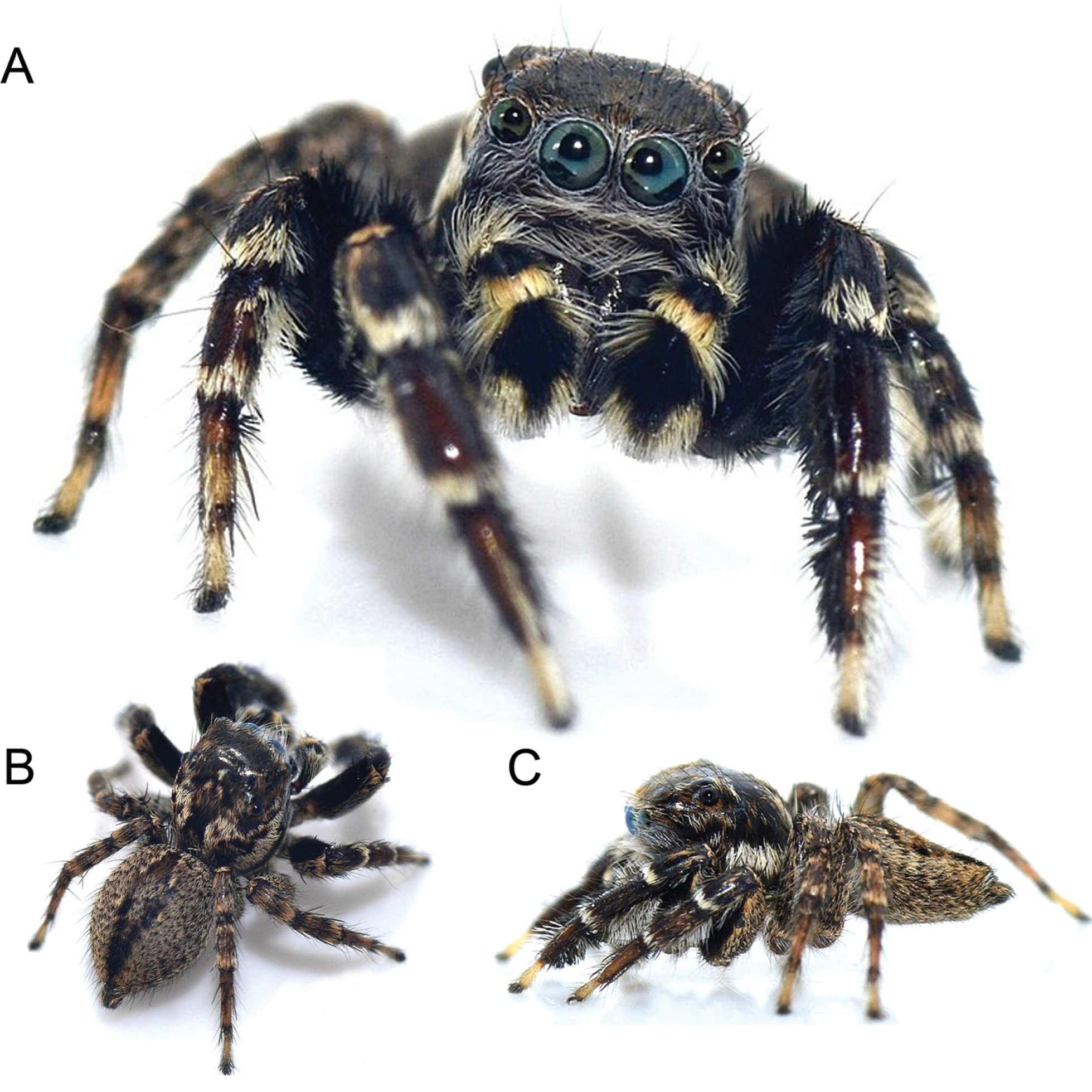 Life images: A–C Jotus karllagerfeldi sp.n.: A front view; B back view; C side view (Photos: Mark Newton)